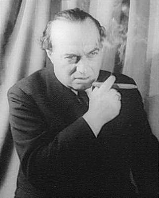 Franz Werfel photographed by Carl Van Vechten, December 14, 1940